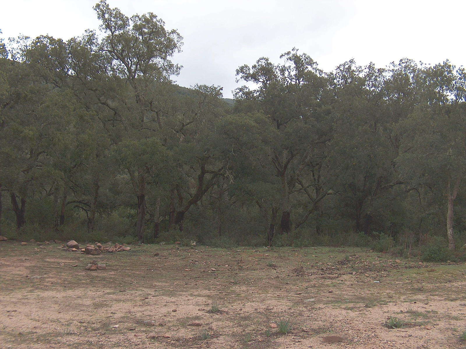 Wood with cork-oak prevailing near Is Pauceris in the Gutturu Mannu forest